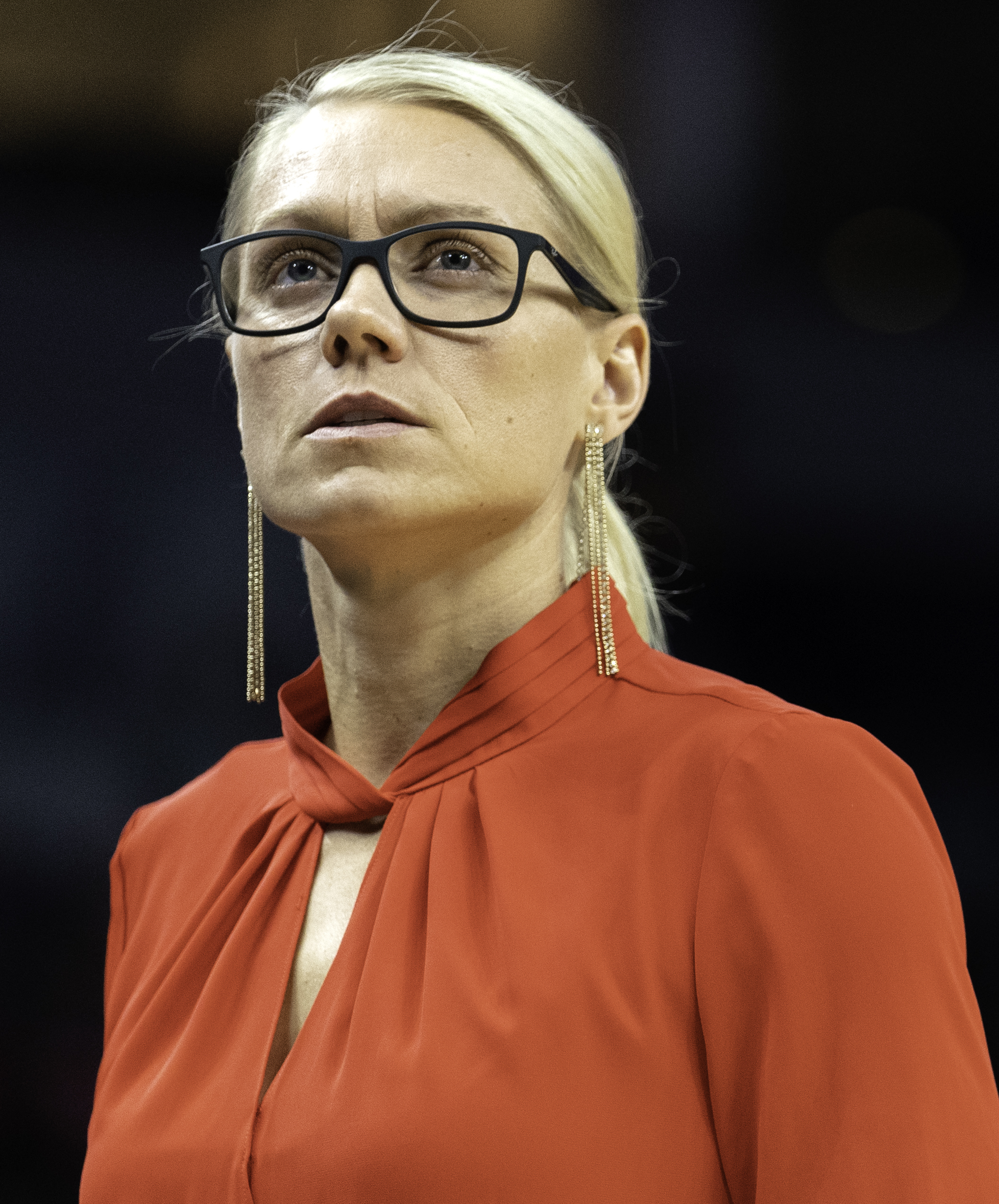 Erin Phillips, Assistant Coach of Dallas Wings, on the sidelines in a game against the Minnesota Lynx